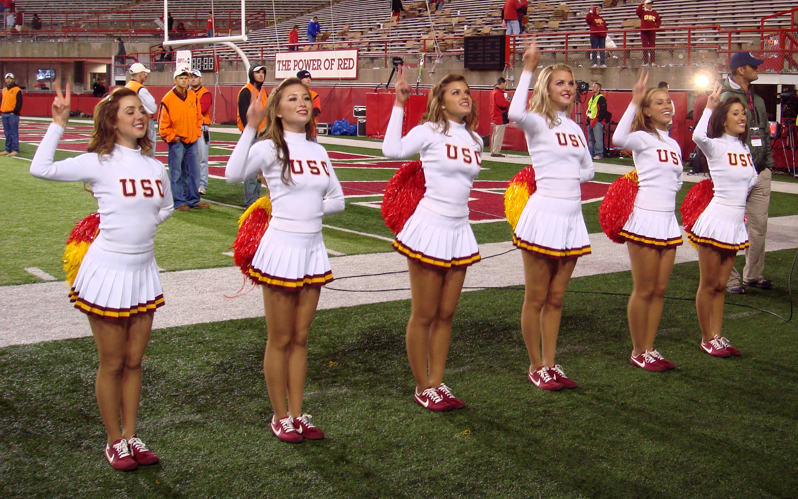 The USC Song Girls take part in a celebration after a USC Trojan football victory over Nebraska. They are making the traditional USC Trojan "V"-for-victory hand sign.